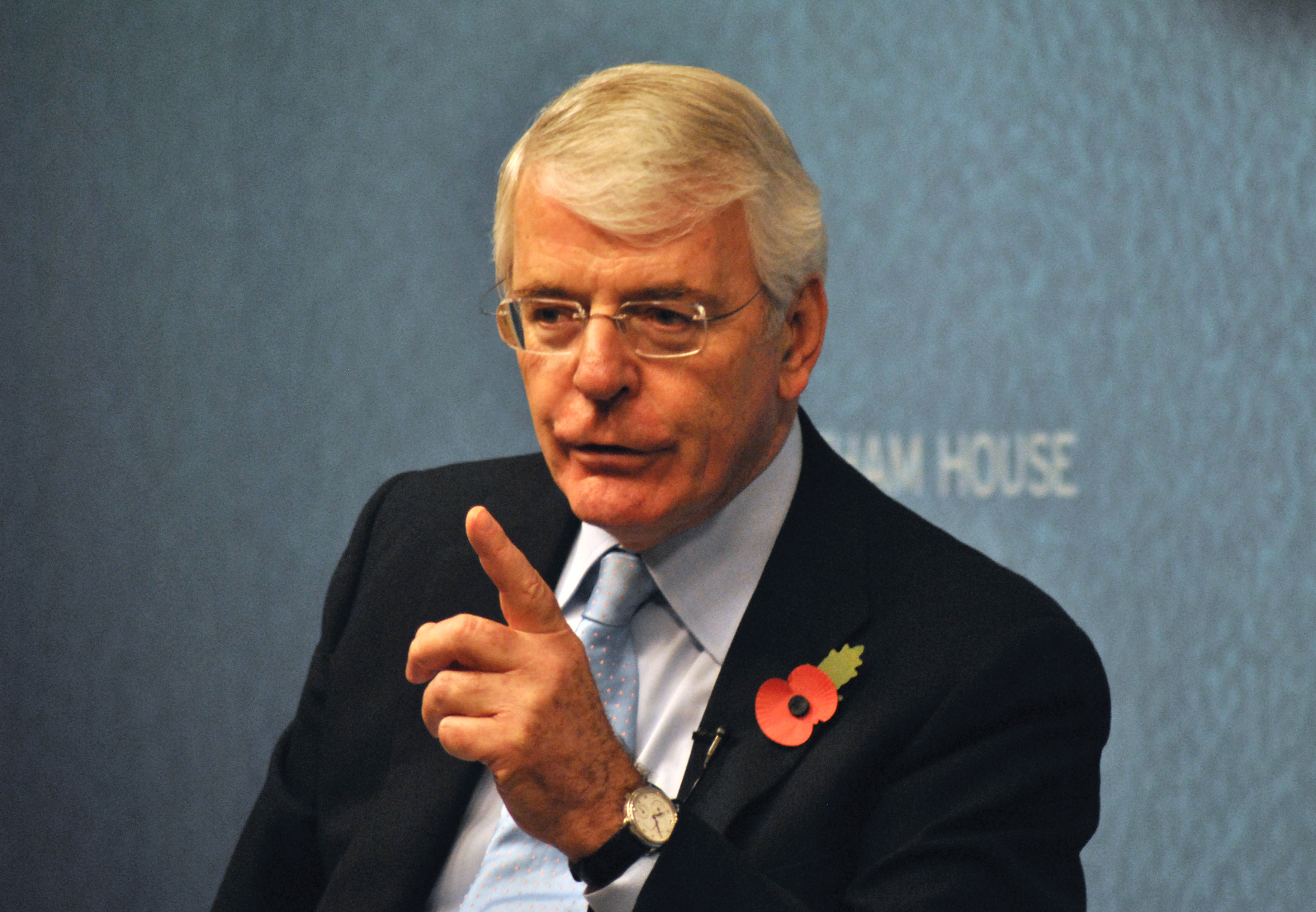 America, Britain and Europe: An Evolving Relationship, November 10 2011